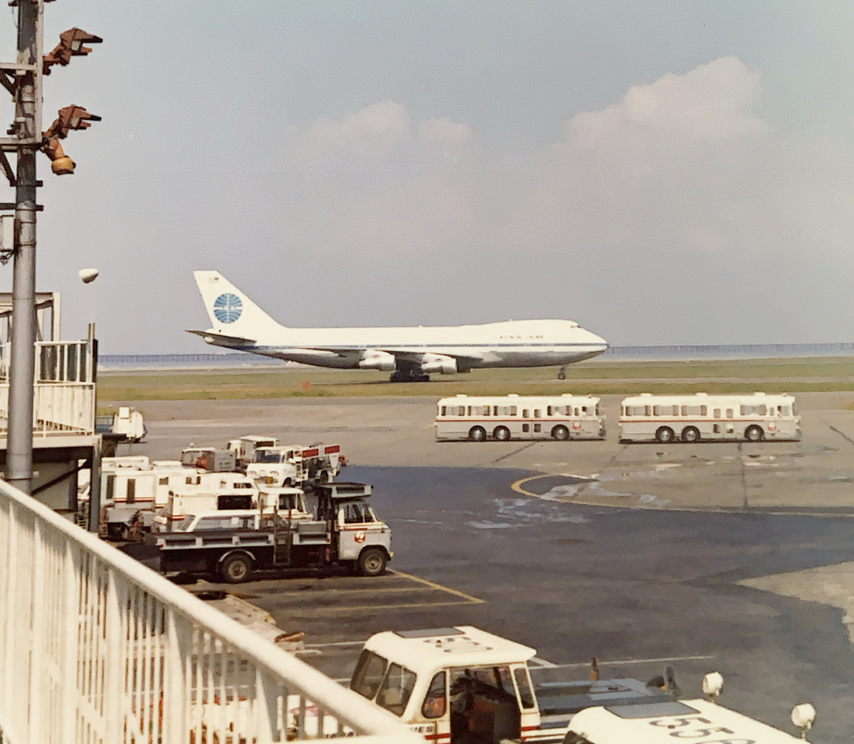 Boeing747 Pan Am 1976